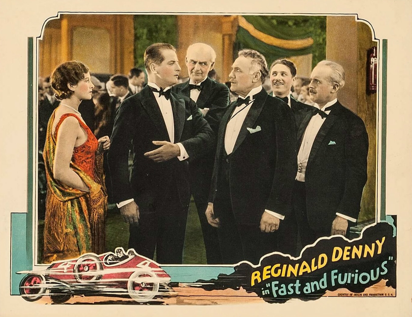 Lobby card for the American comedy film Fast and Furious (1927).